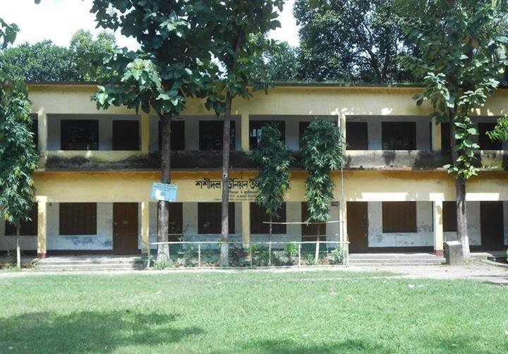 Shashidol Union High School This is a secondary school